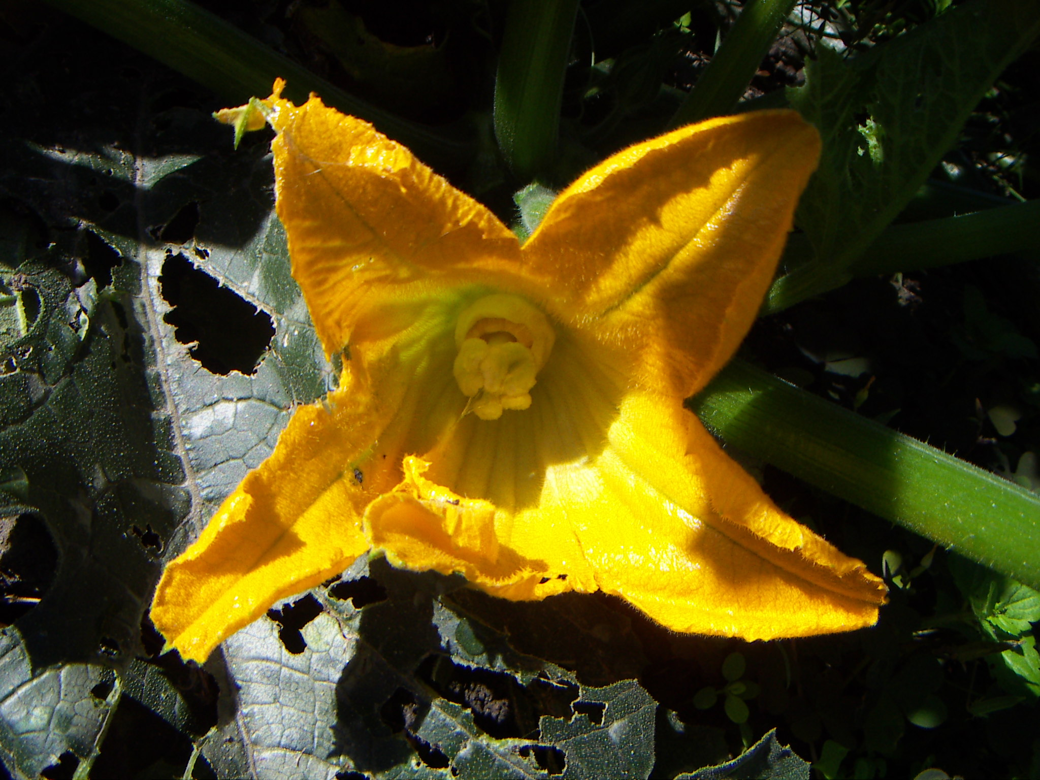 Zucchini flower Česky: Květ cukety